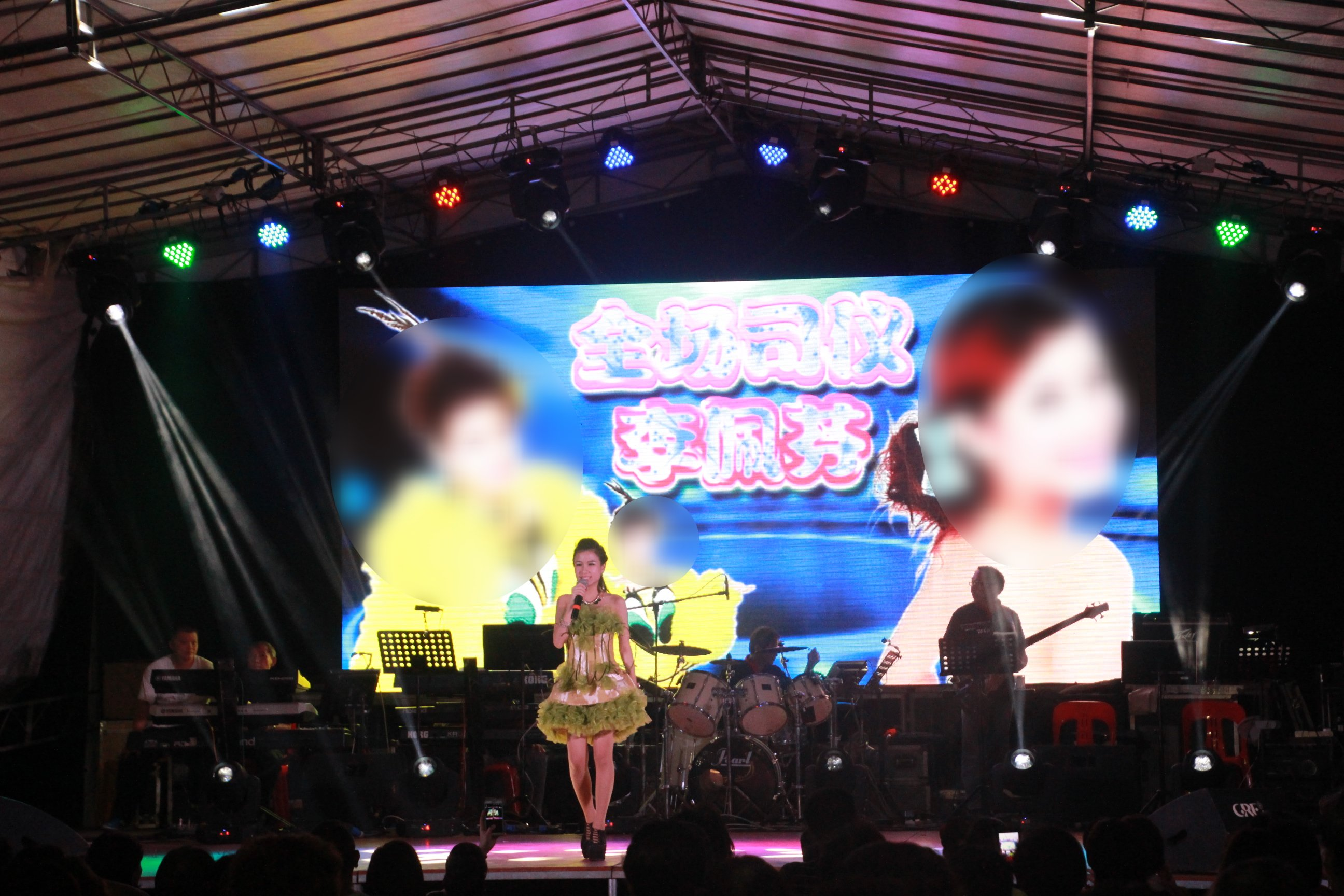 A female getai performer. In the background is a large LED display with her name and photographs of her. (The photographs have been blurred out as they are non-free derivative works.)